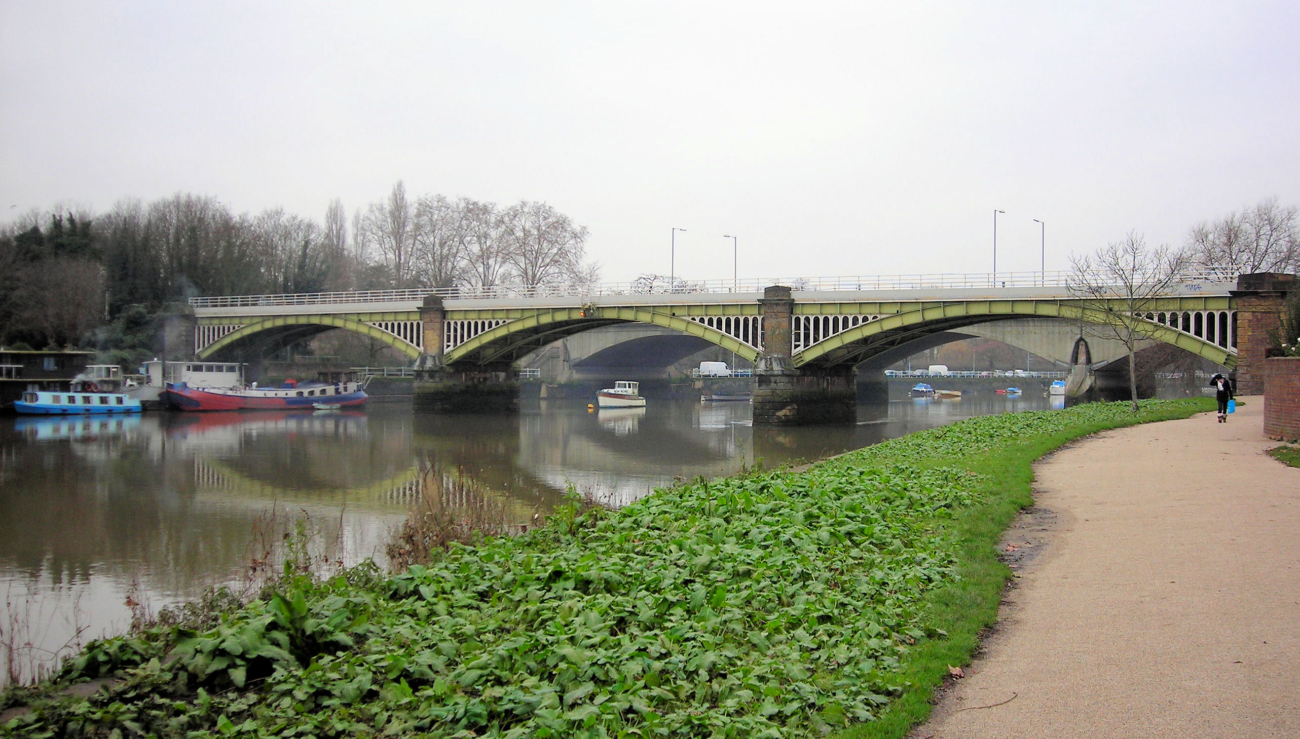 Occasionally gets called 'Twickenham Railway Bridge' from its proximity to the much younger Twickenham Bridge. A cast iron rail bridge built in 1846 and designed by Joseph Locke carried a new line to connect Richmond with Waterloo via Clapham Junction. Three 100ft spans take the line across the river. Donald Sutherland looks for clues under the railway bridge on the Richmond side in Murder By Decree (1979).